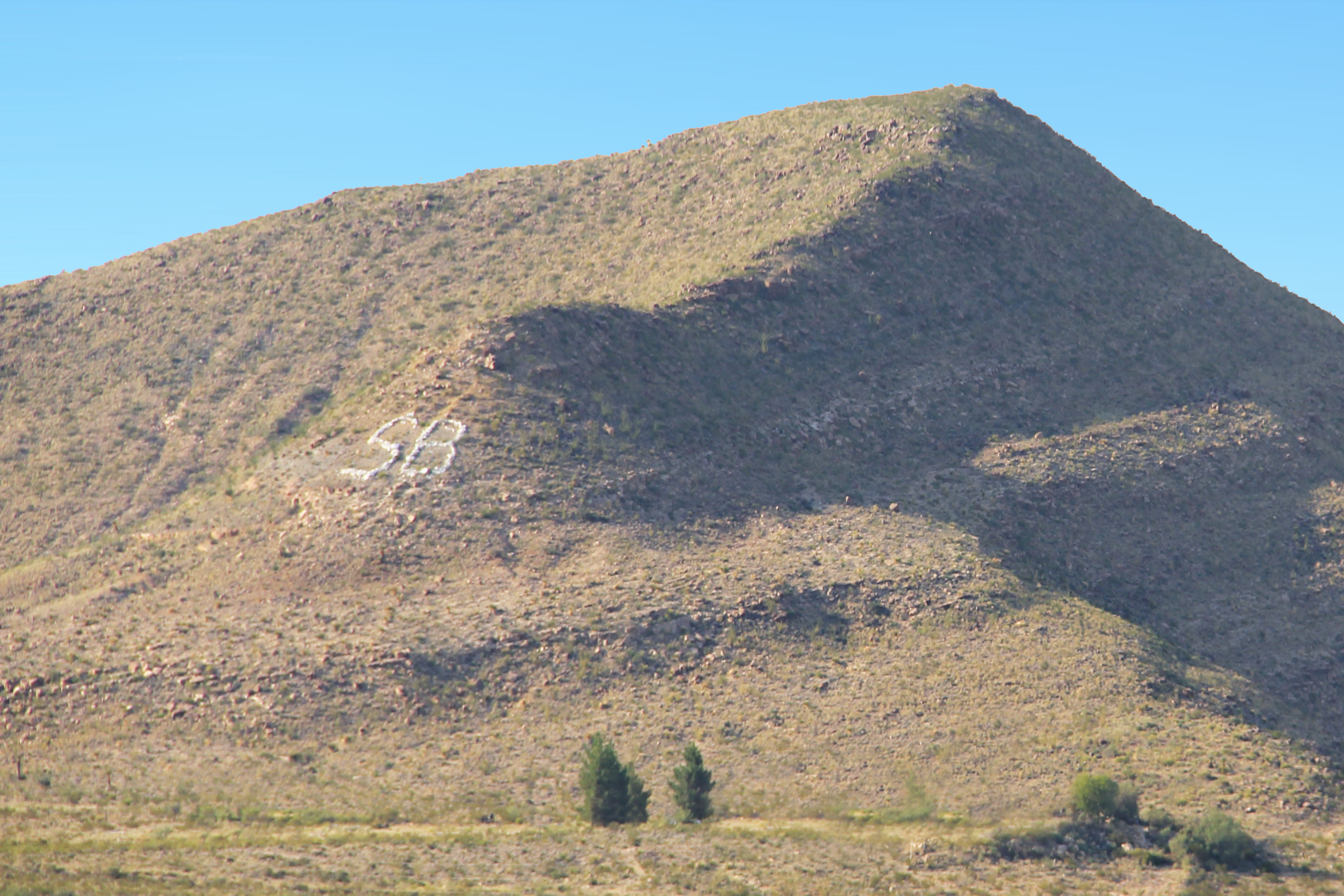 Sierra Blanca Mountain is located on the edge of Sierra Blanca, TX.